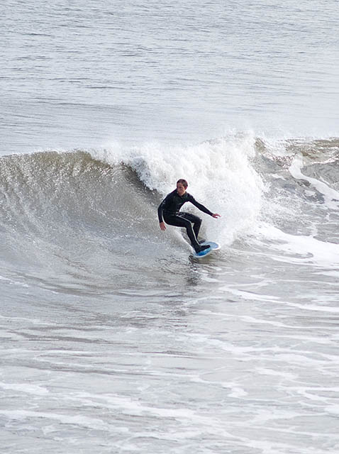 Surf's up! In recent years, Saltburn has become a popular surfing spot. The pier is a good place from which to watch.